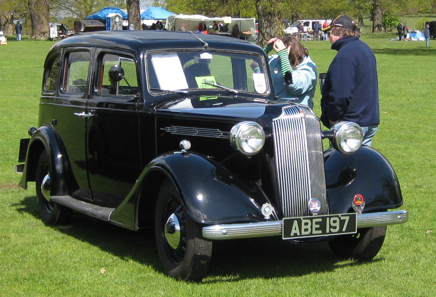 Vauxhall 14 saloon at Oldtimer show at Woburn